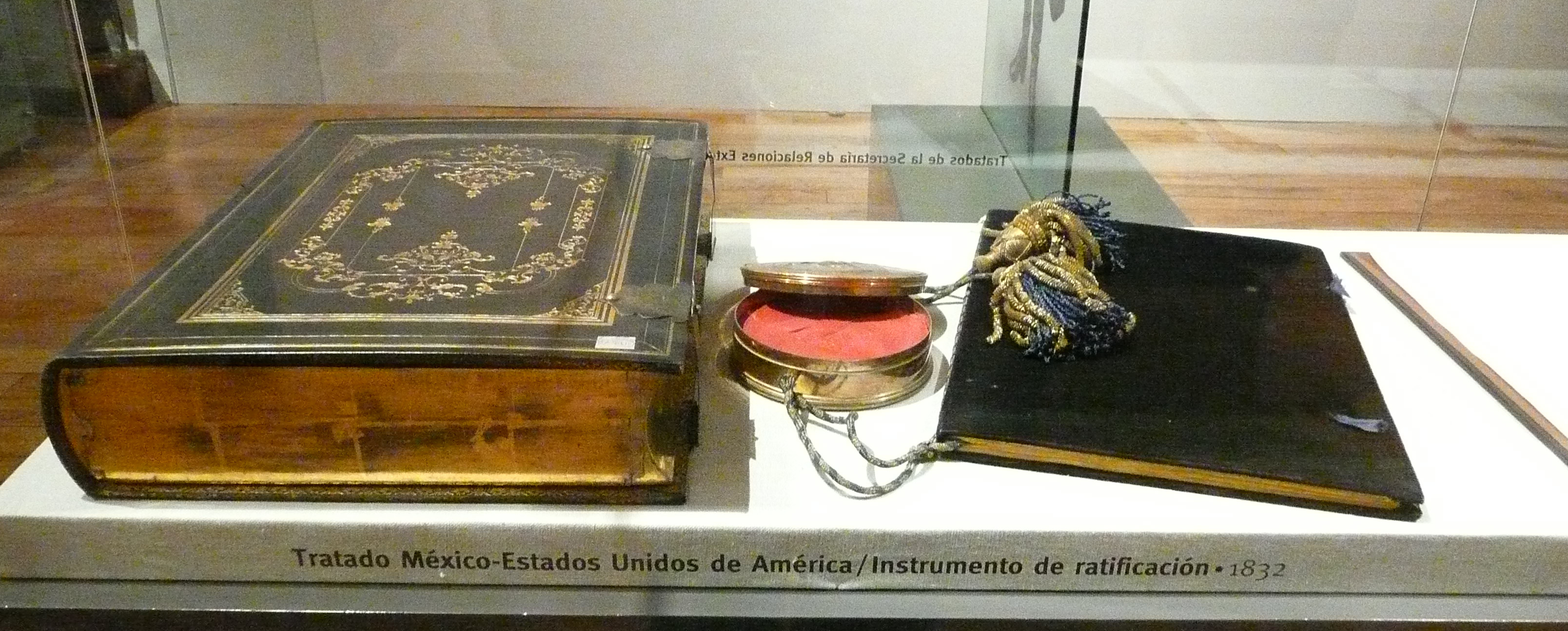 Photo of the instruments of ratification of the agreement limits between the United States of America (USA) and the United Mexican States (EE.UU.MM.) in 1832, taken during his exhibition at the Antiguo Colegio de San Ildefonso Mexico City to mark the bicentenary of the independence of Mexico in the exhibition of drawings and historical documents. Photo taken in August 2010.